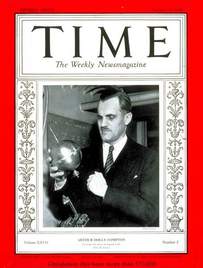 Time Magazine cover for January 13, 1936 with photo of Arthur Compton, winner of the 1927 Nobel Prize in Physics and later head of the Manhattan Project's Metallurgical Laboratory.